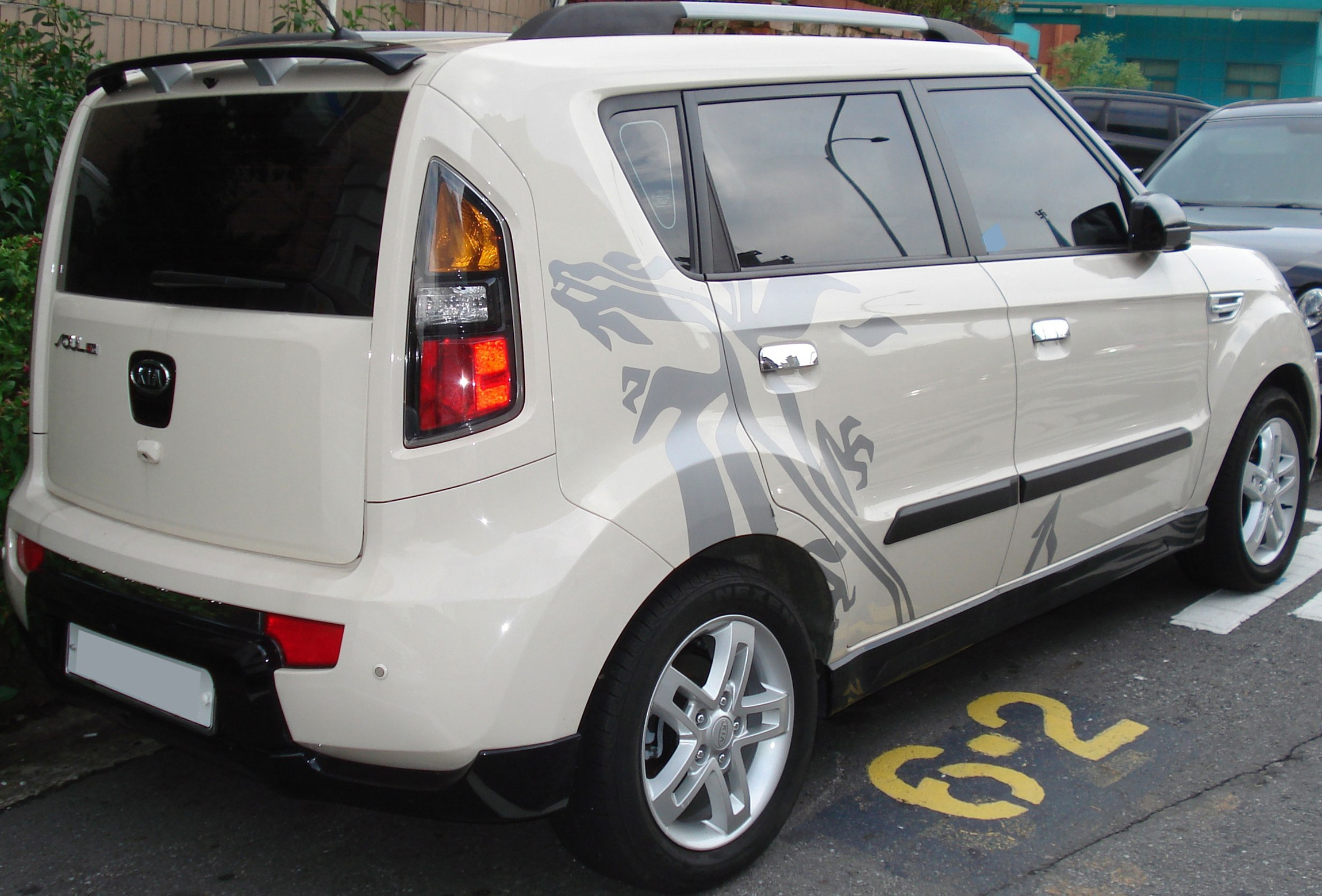 Kia Soul